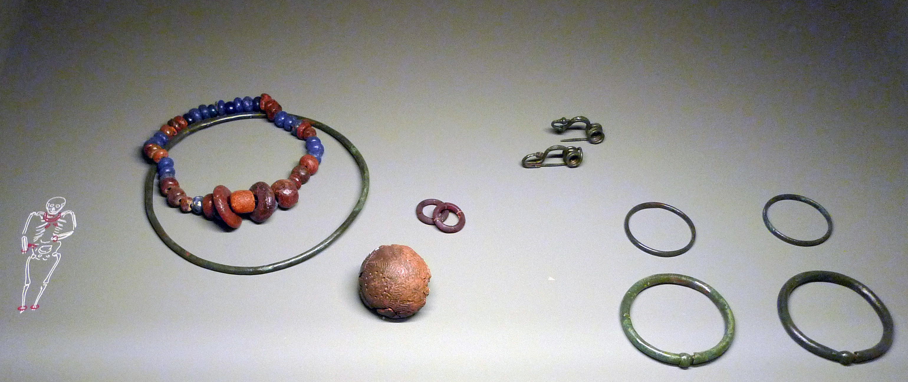 Jewellery from a girl's grave, c. 400 BC. Grave no. 23, Celtic burial site, "Rain", Münsingen, Switzerland.